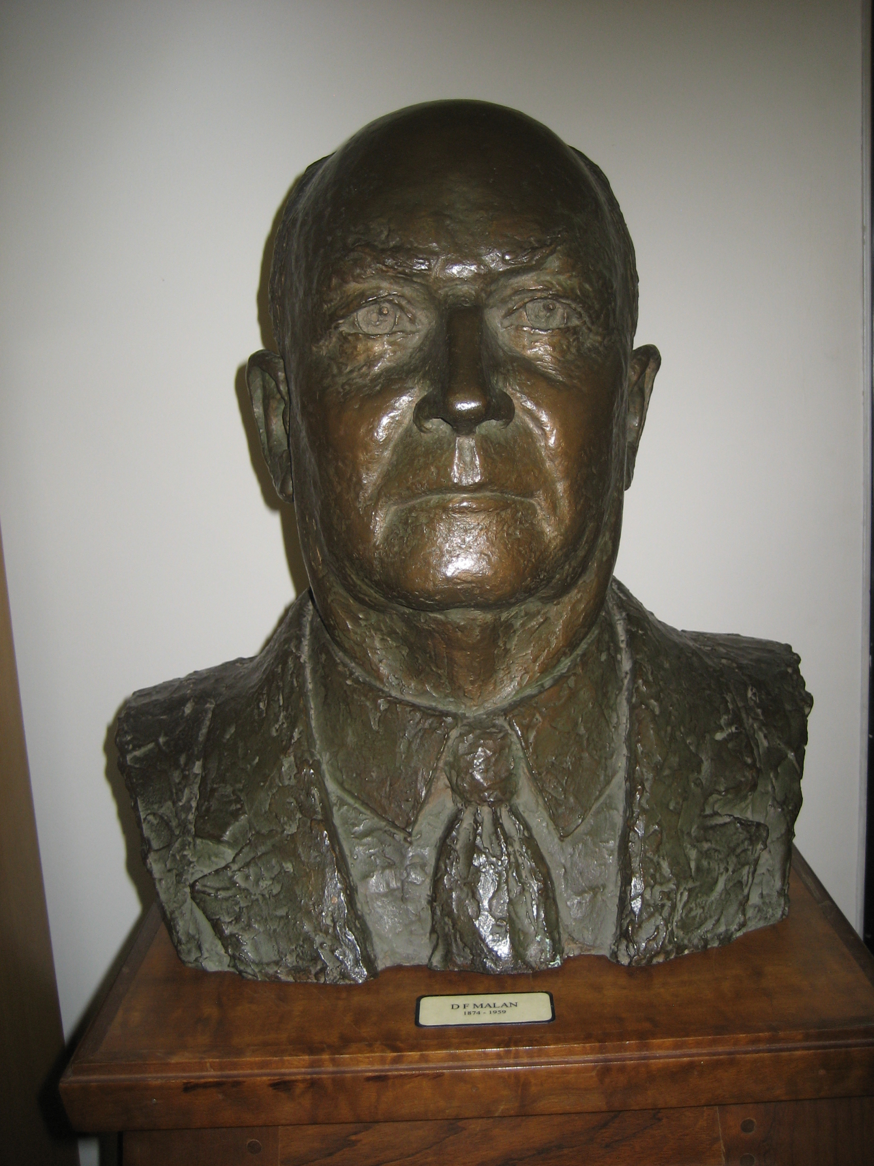 Daniel François Malan, bust by unknown sculptor. Location: Special Collections, J.S. Gericke Library, Stellenbosch (South Africa)